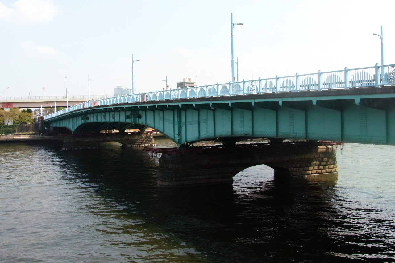 Kototoi-bashi bridge in Tokyo, Japan.